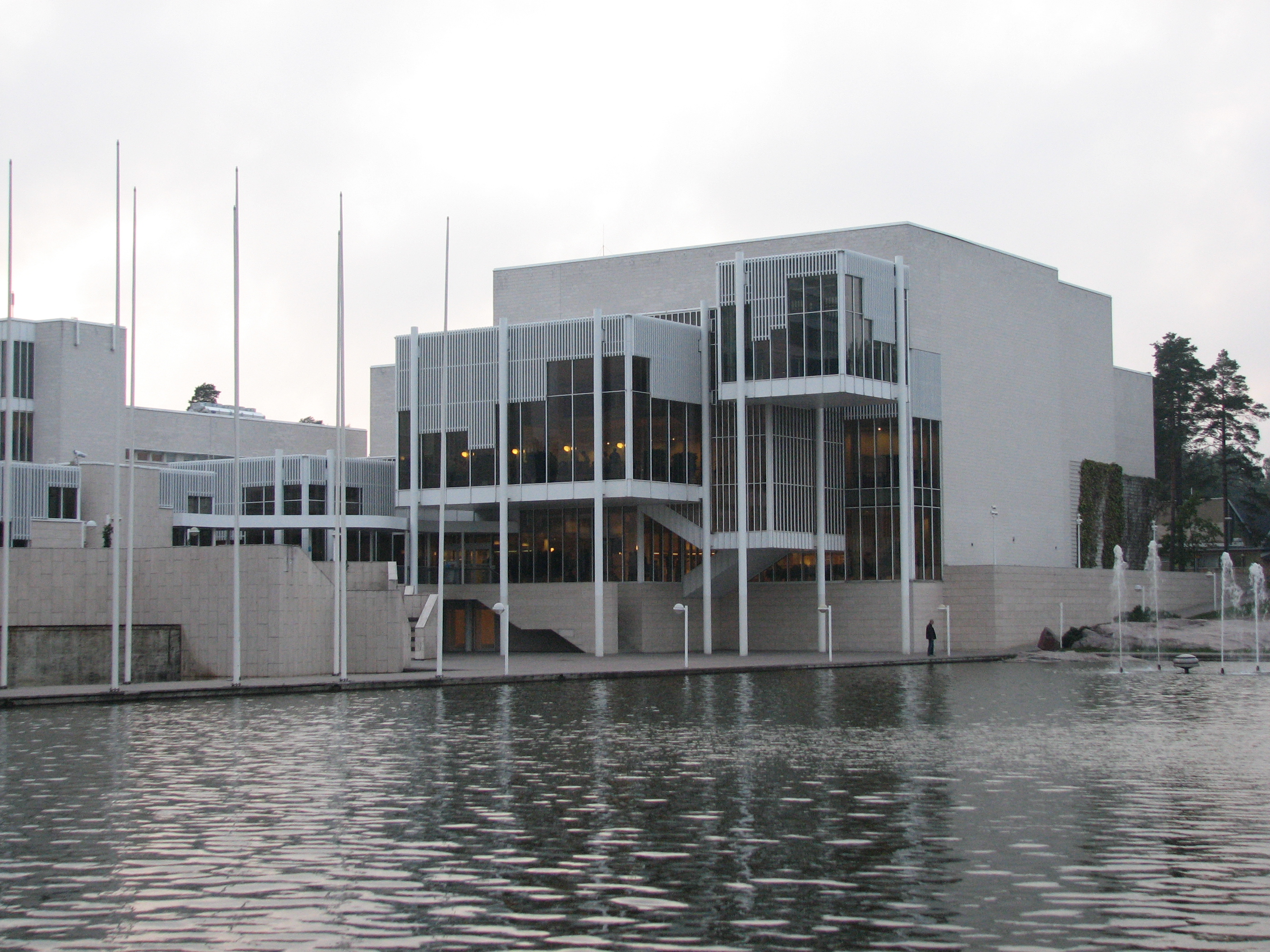 Espoo Cultural Center in Tapiola, Espoo.